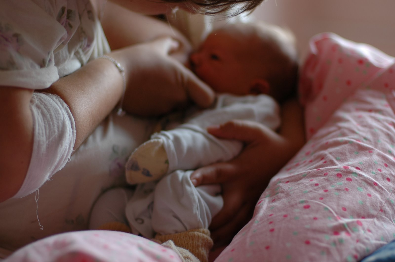 Breastfeeding the baby.